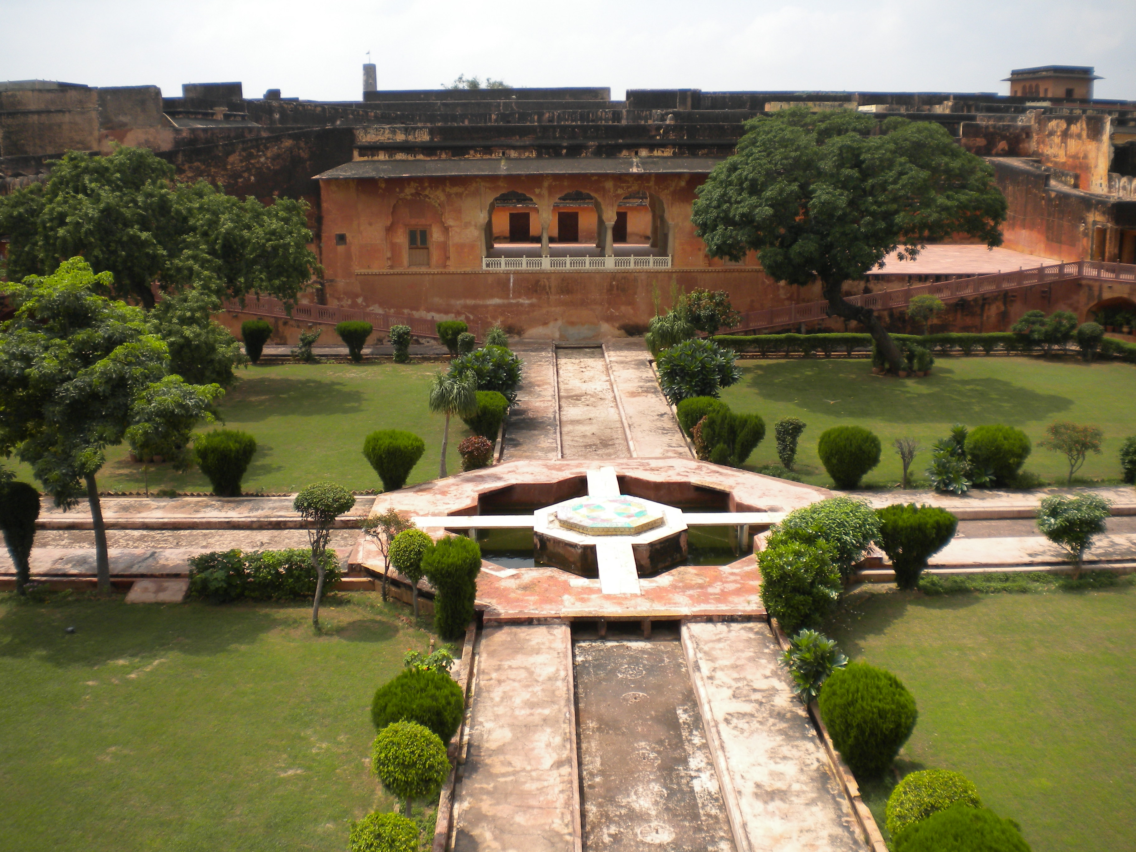 Char bag (Mughal style garden partitioned into four) near Aram Mandir of Jaigarh Fort. Aram mandir can be seen in the far end.